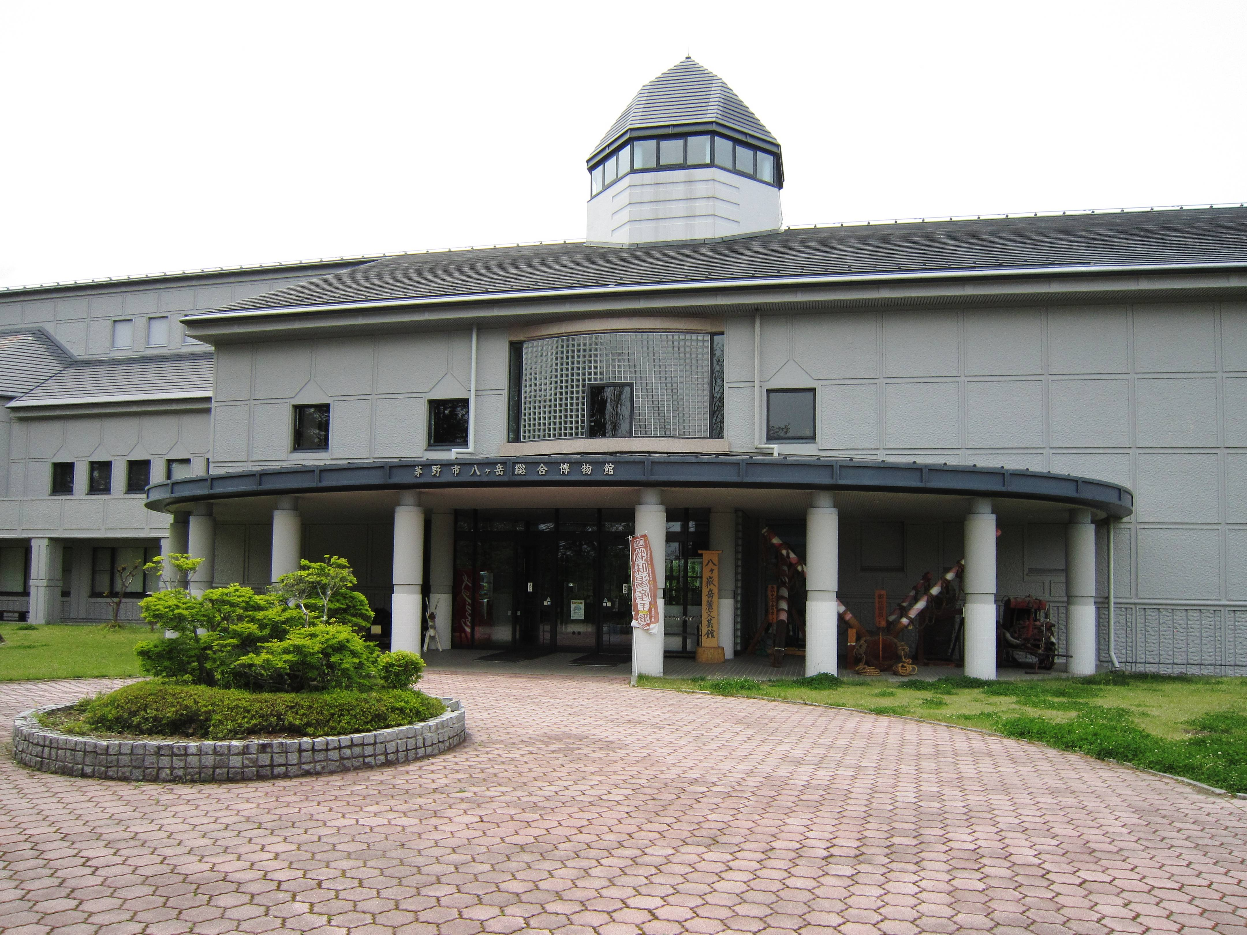 Chino City Yatsugatake Museum.